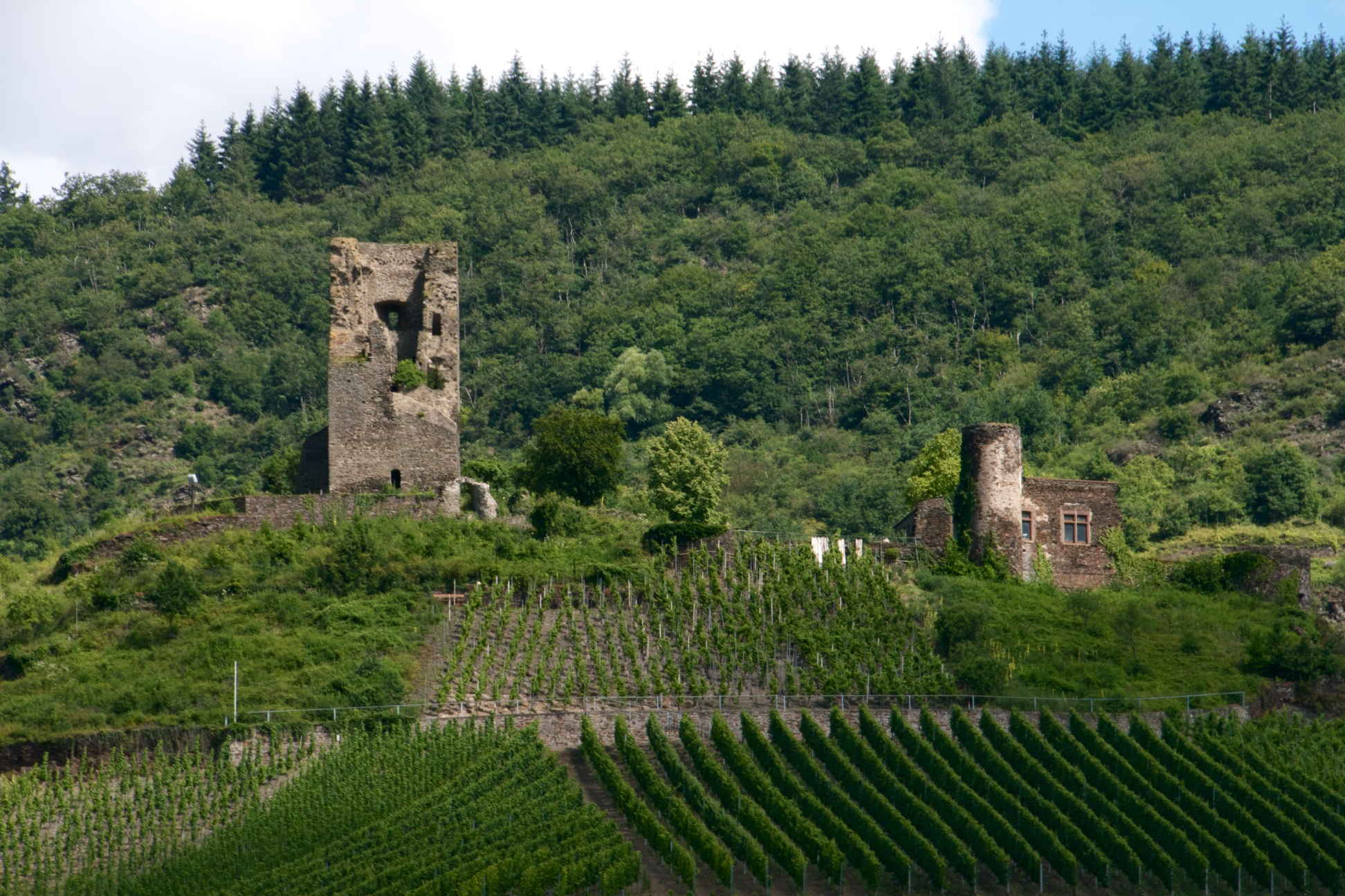 Castle ruin Coraidelstein in Klotten, Cochem-Zell in Rhineland-Palatinate in Germany.